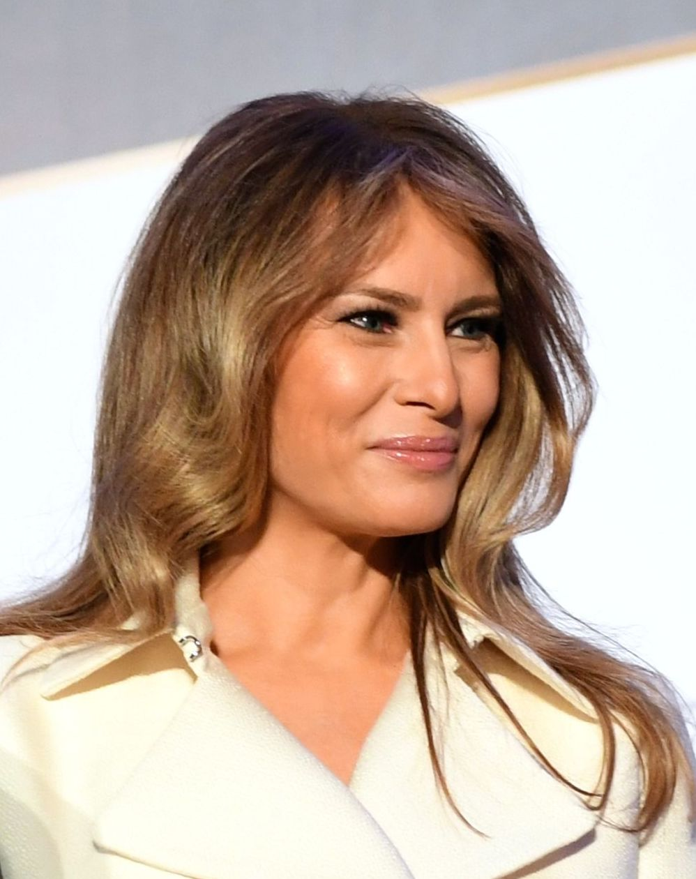 Melania Trump at International Women of Courage Awards 2017